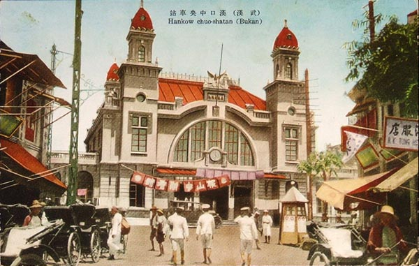 A postcard of Hankow Station